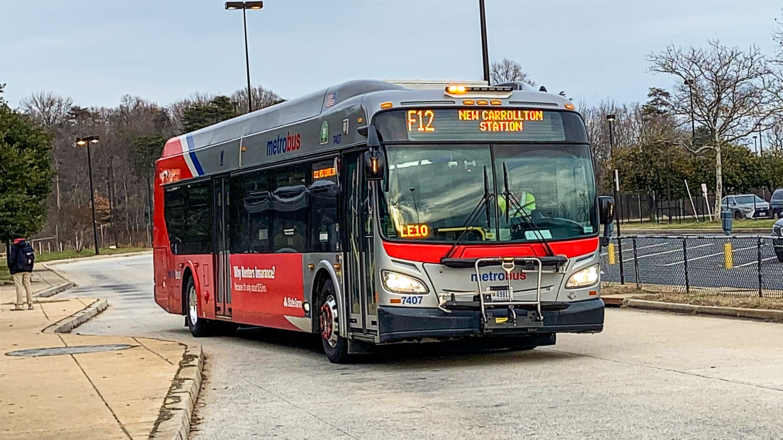 WMATA New Flyer XDE40 7407 on Route F12